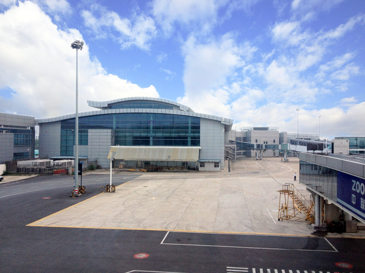 Airside View of CSX airport Terminal 1 and concourses